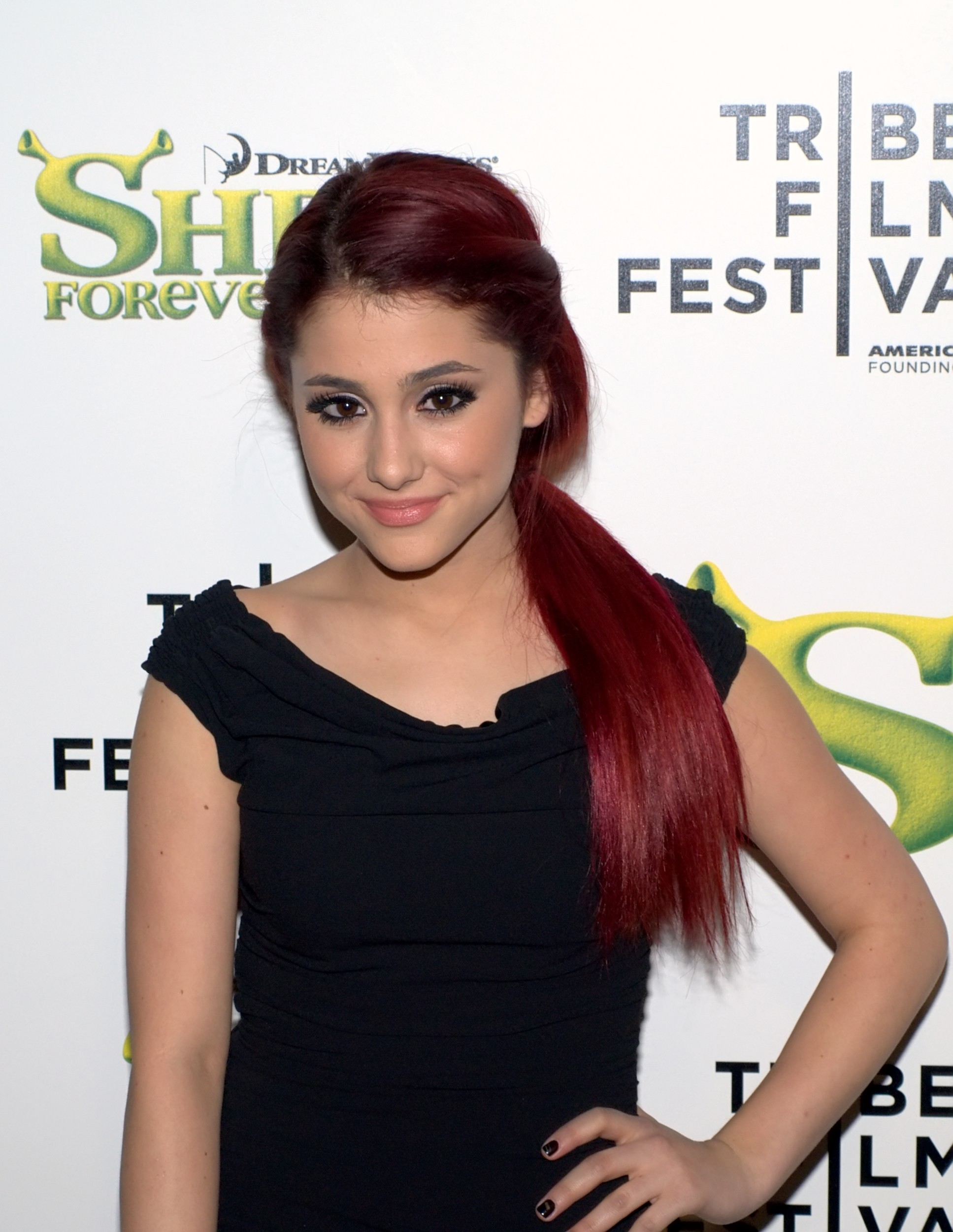 Ariana Grande at the Tribeca Film Festival 2010.